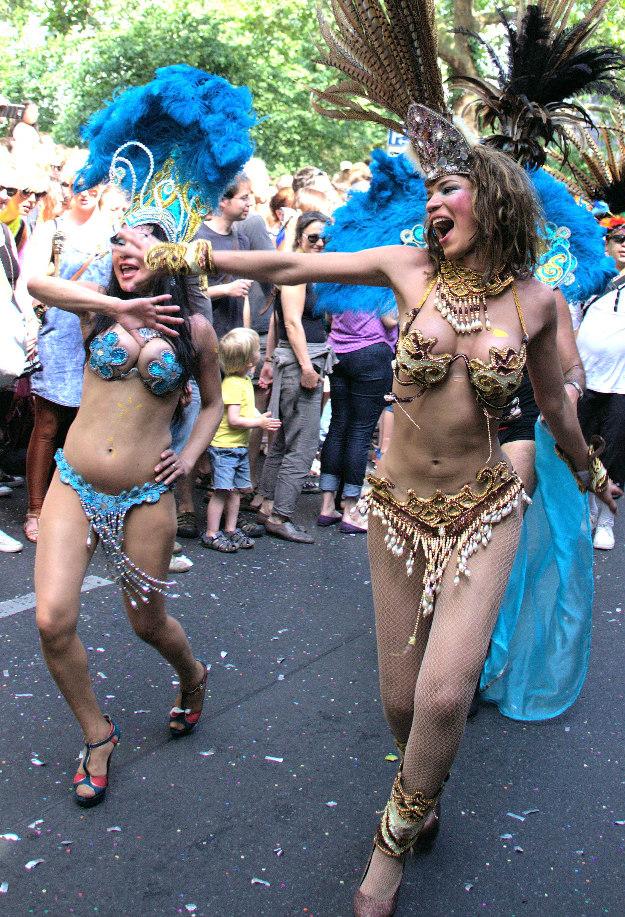 Karneval der Kulturen in Berlin, 2012